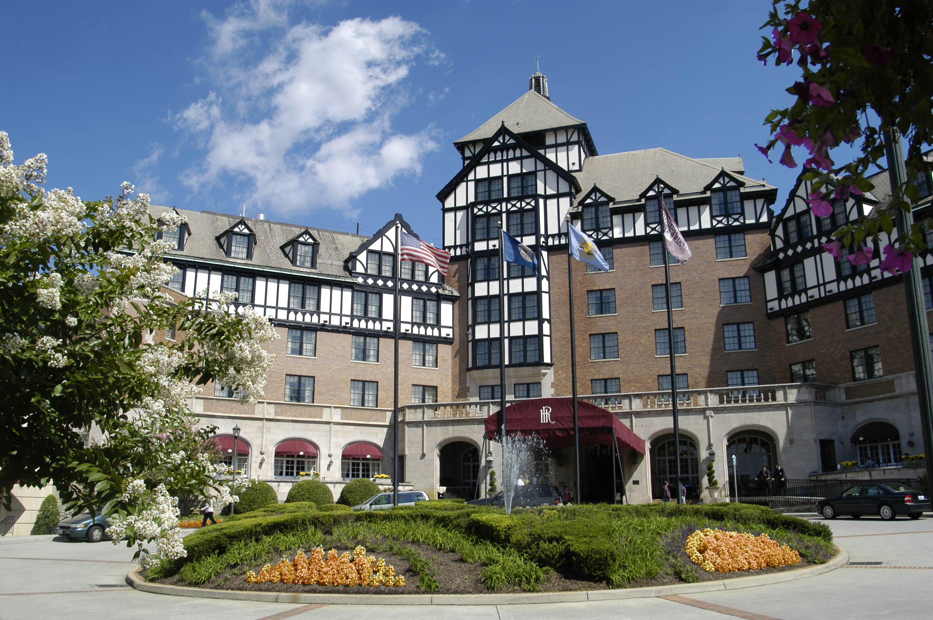 Shot this as part of a photo-shoot in May 2008.